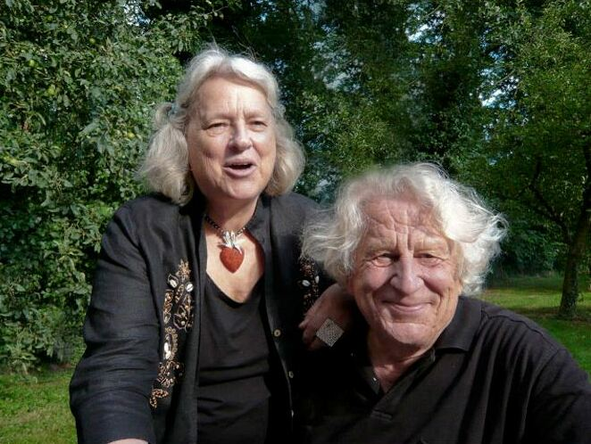 Fred Mayer and his wife Ilse